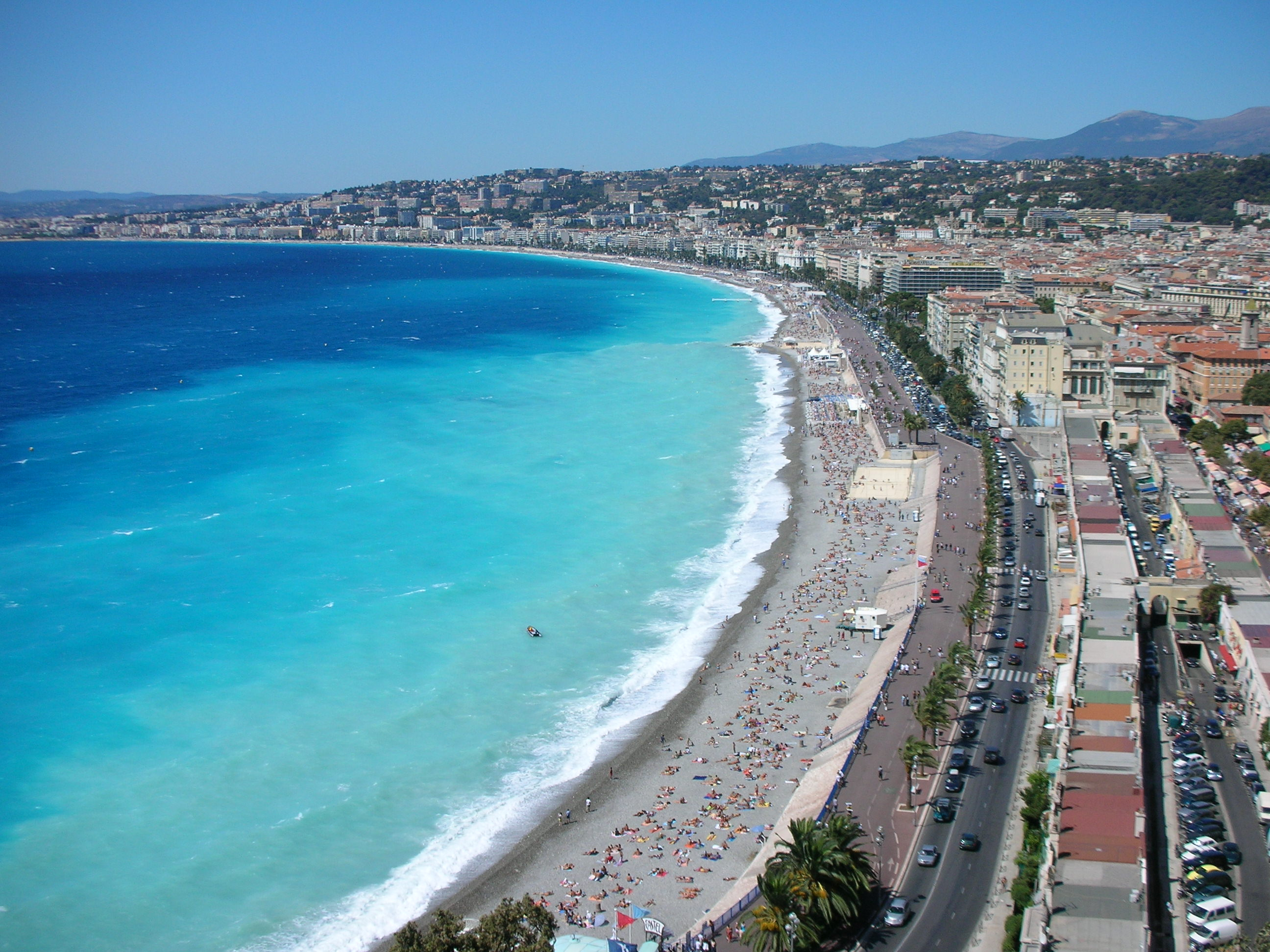 The Nice seafront on a windy day, viewed from the "Colline du Château"